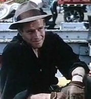 Screenshot of Charlton Heston from the trailer for the film The Greatest Show on Earth.